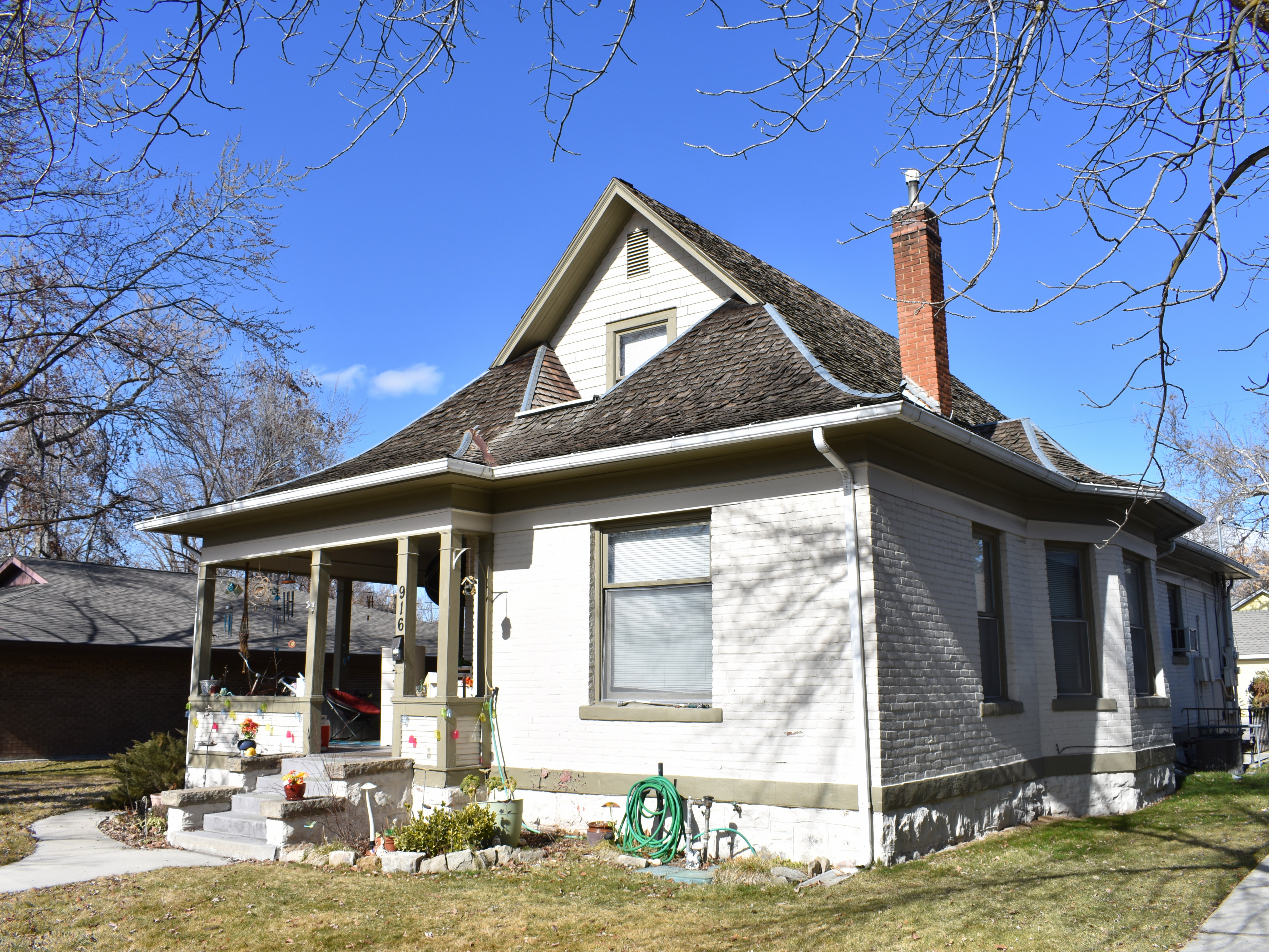 The Brunzell House (1909) in Boise, Idaho, was designed by Tourtellotte & Co. and is listed on the National Register of Historic Places.